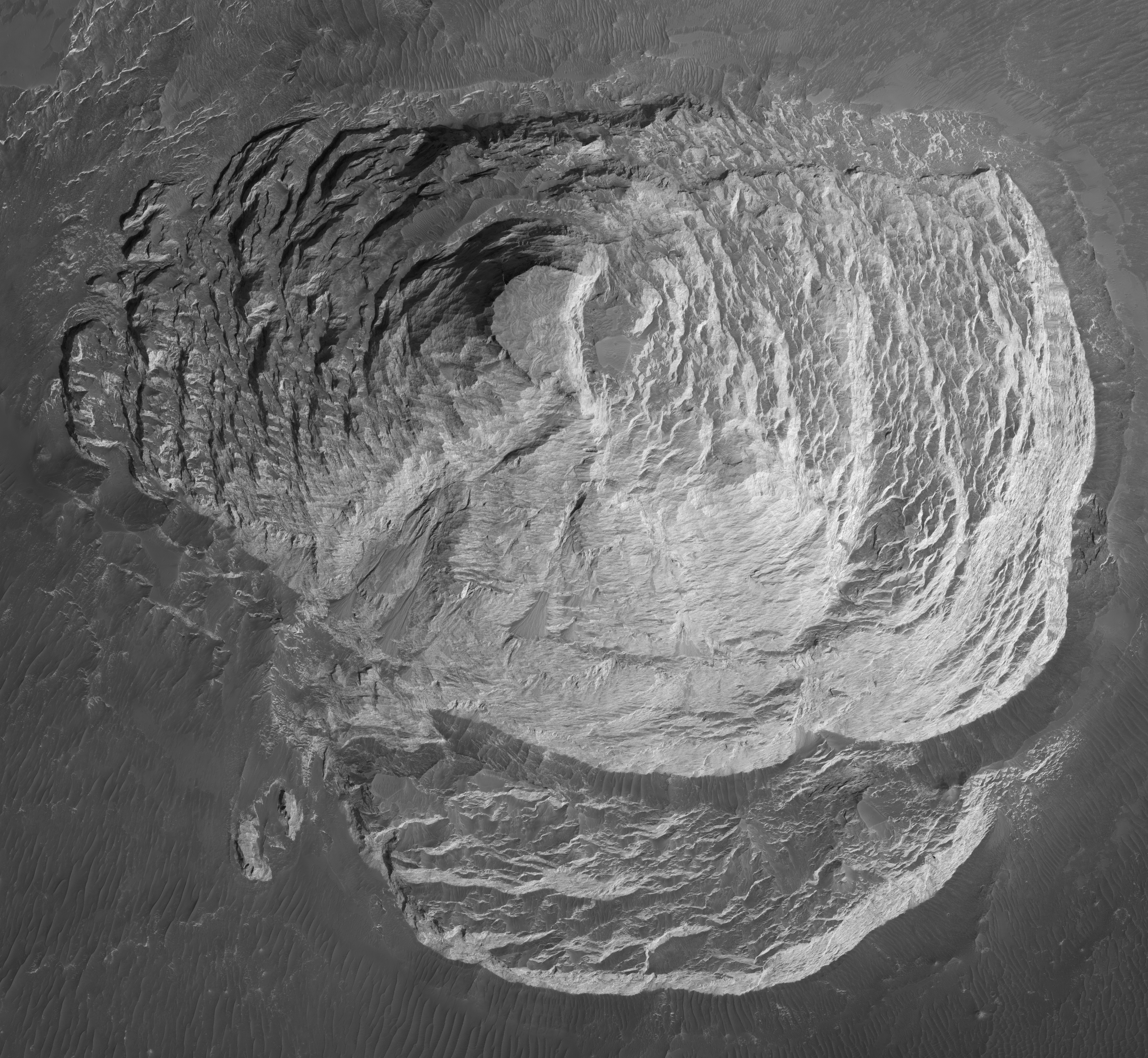 A light outcrop in Aurorae Chaos on Mars imaged by the HiRISE instrument aboard the Mars Reconnaissance Orbiter. The image resolution is close to 53.4 cm per pixel.